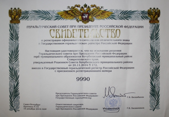 The certificate of registration of the coat of arms of Kochubeyevsky District (Stavropol Region) in the State Heraldic Register of the Russian Federation